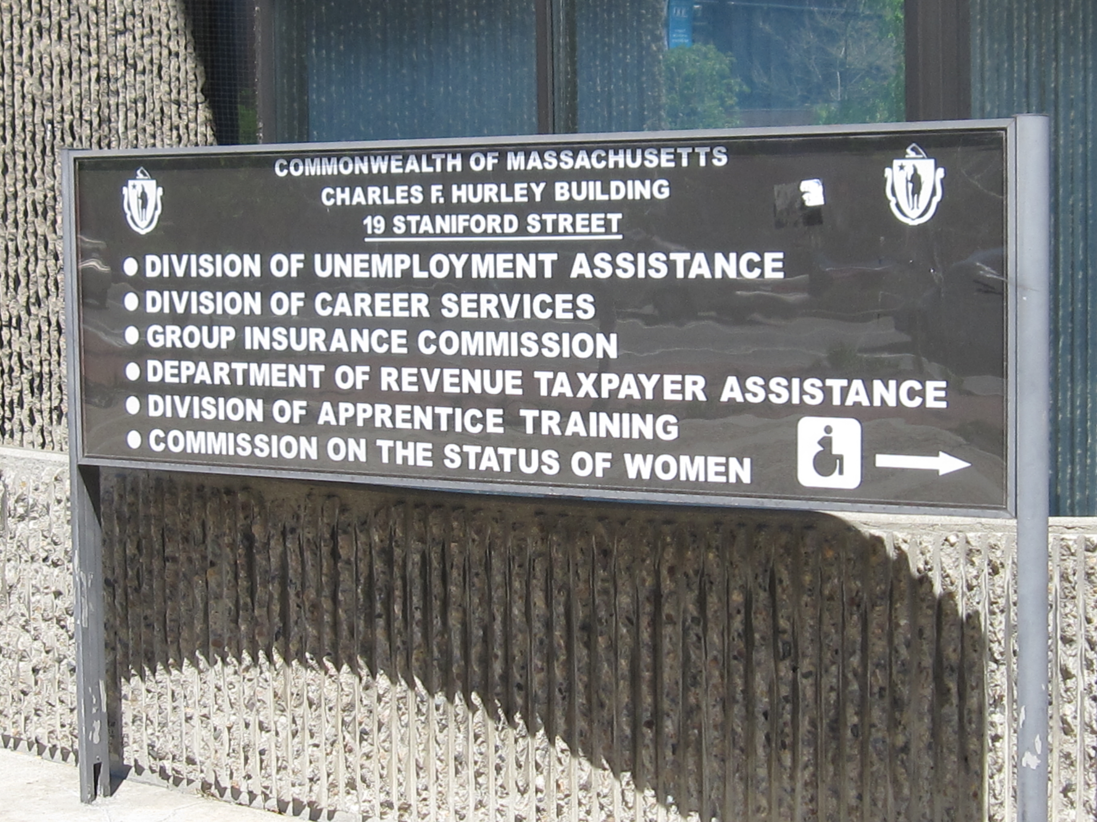 Boston, Massachusetts. Signage: "Commonwealth of Massachusetts / Charles F. Hurley Building / 19 Staniford Street / Division of Unemployment Assistance / Division of Career Services / Group Insurance Commission / Department of Revenue Taxpayer Assistance / Division of Apprentice Training / Commission on the Status of Women"